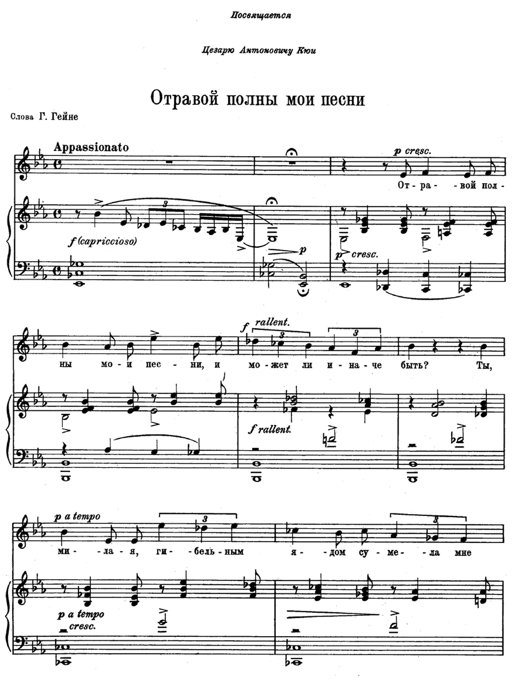 Alexander Borodin Otravoy_polny_moi_pesni_page1.jpg